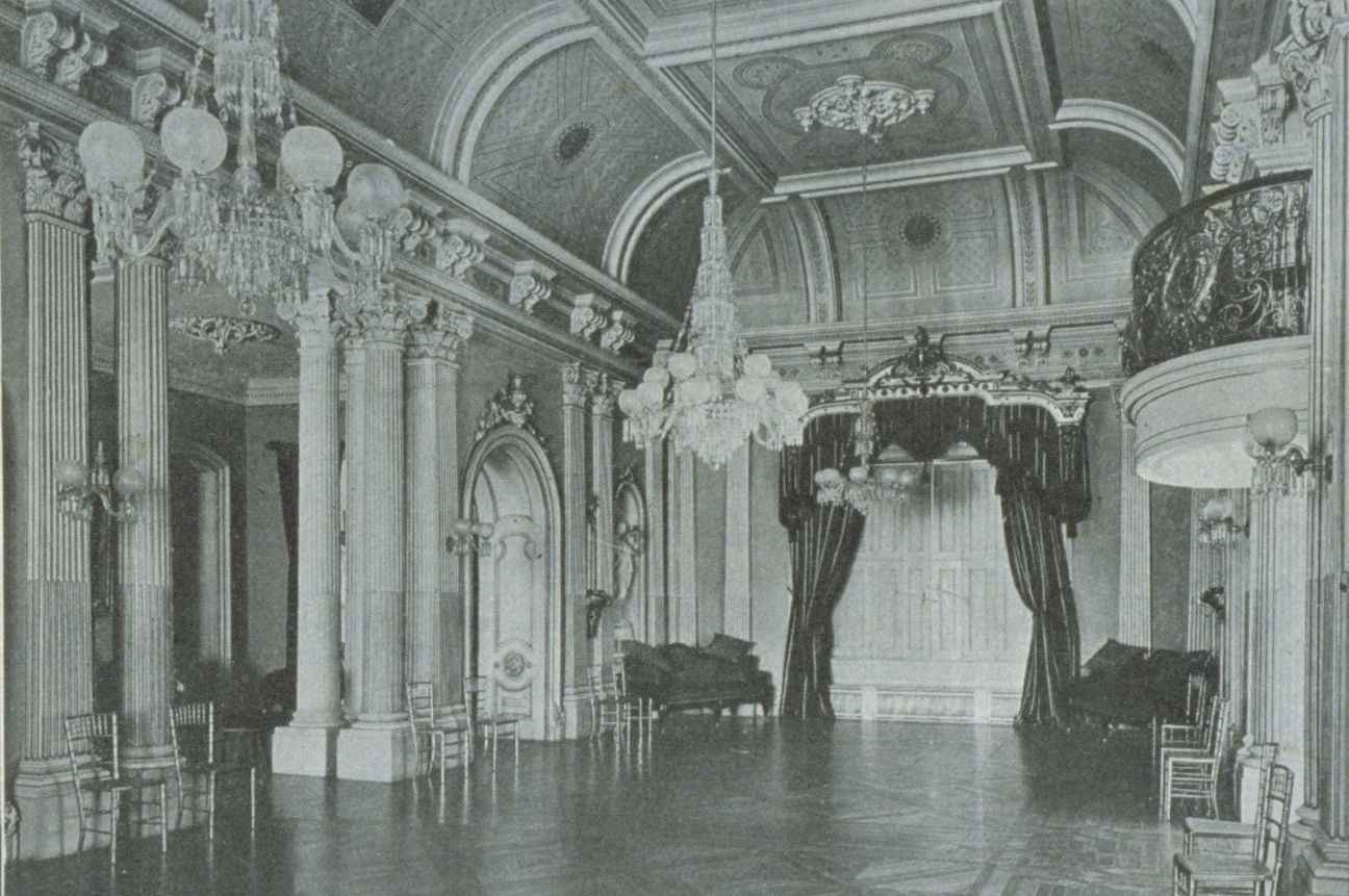 Grand Ballroom, Hugh Allan House "Ravenscrag", 835-1025 Pine Avenue West, Montreal, Quebec, Canada.